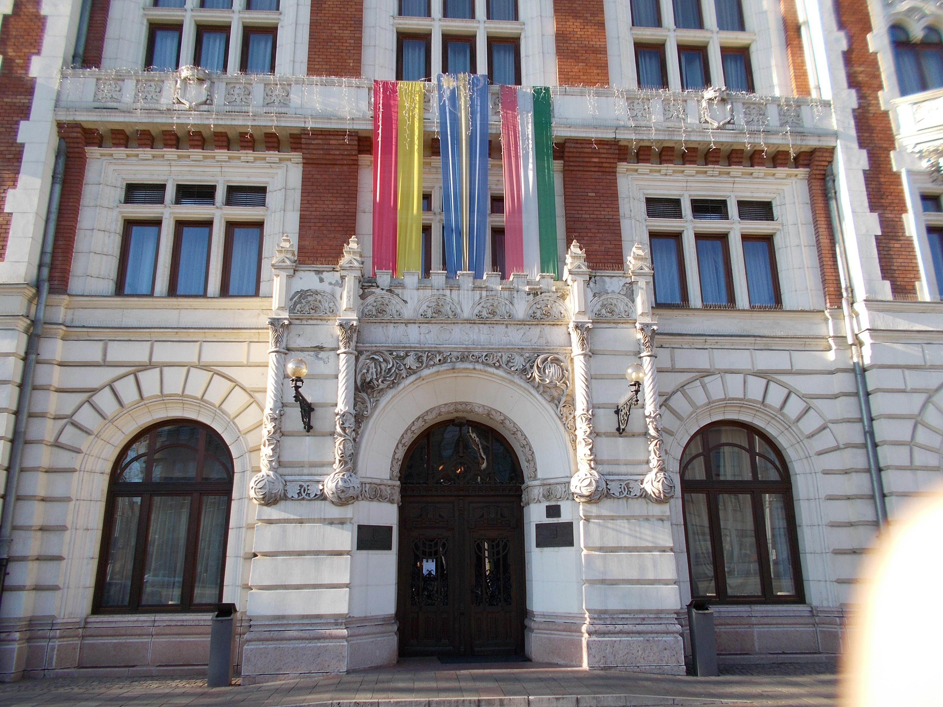 Újpest Town Hall. Main Entrance.